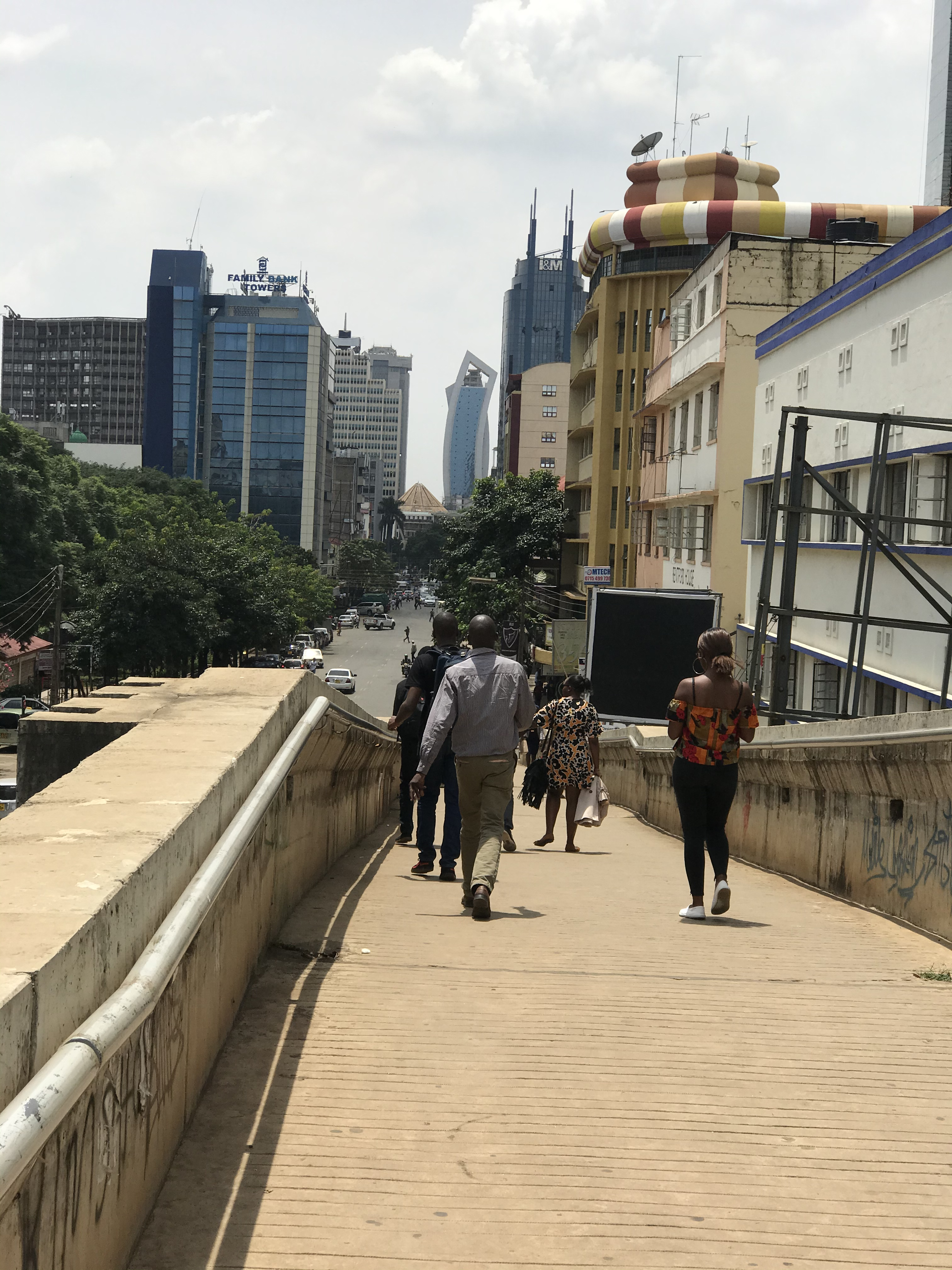 On the move. This is an image with the theme "Africa on the Move or Transport" from: Kenya